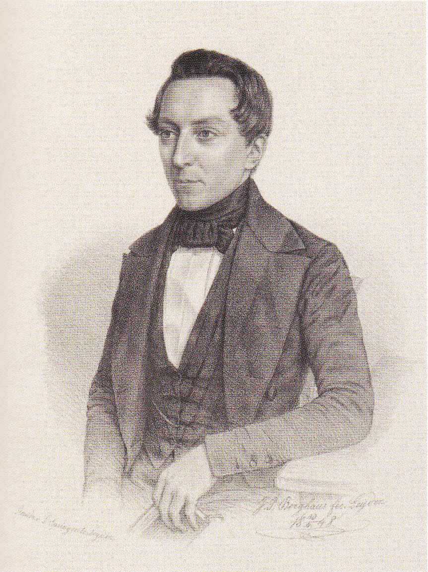 Dutch missionary and linguist Benjamin Frederik Matthes (1818-1908). Lithography by J.P. Berghaus (1848)